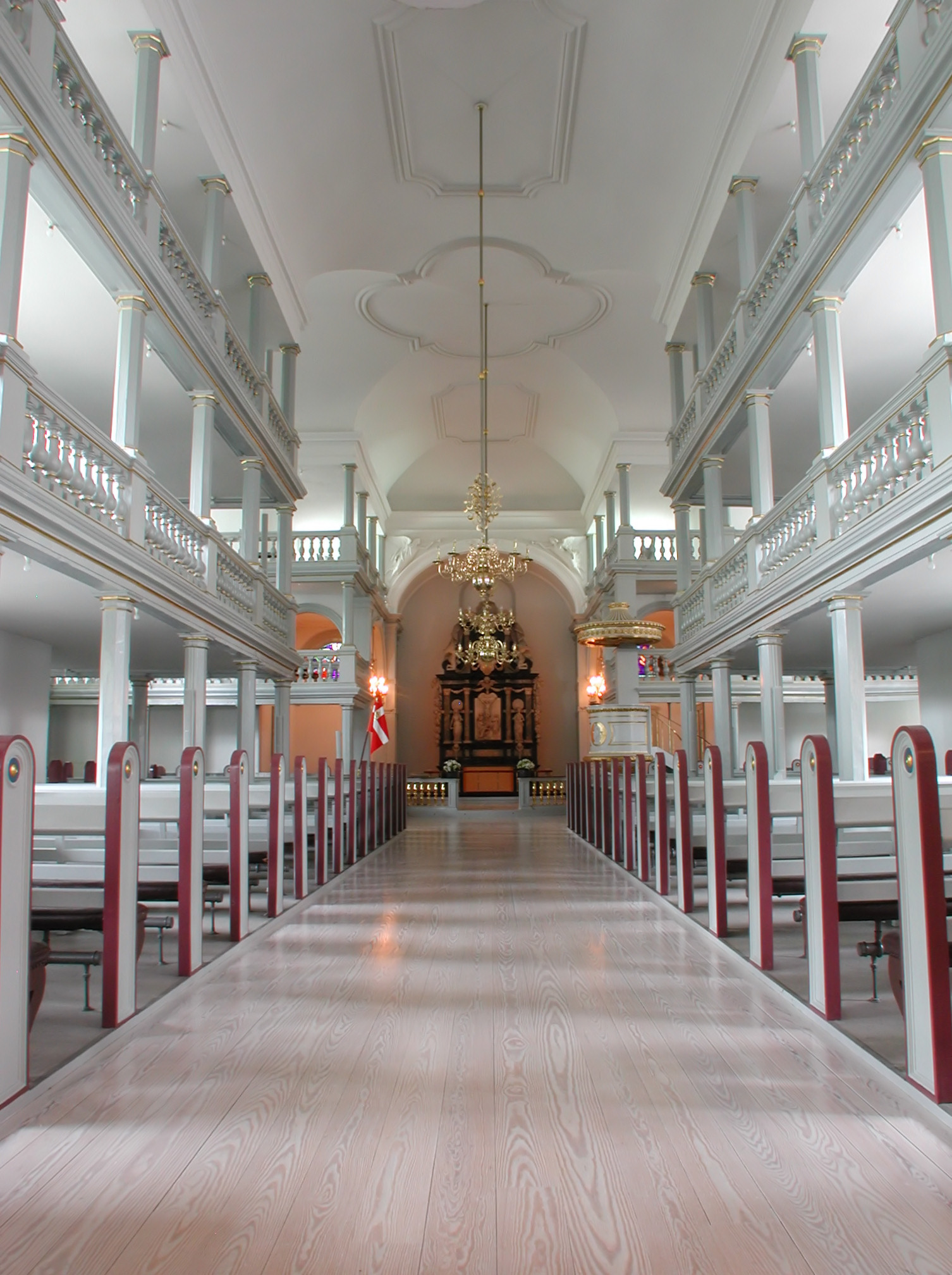 Garnisons Kirke (Garrison Church), Copenhagen, Denmark. Interior.